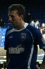 Tom Eastman, lineing up against Millwall, picture take by me IpswichTown95